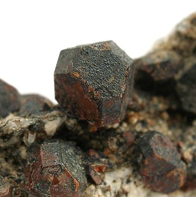 Cafarsite Locality: Wanni glacier - Scherbadung Mt. (Cervandone Mt.) area, Kriegalp Valley (Chriegalp Valley), Binn Valley, Wallis (Valais), Switzerland (Locality at ) Size: small cabinet, 7.4 x 3.5 x 2.2 cm Cafarsite on Granite Aesthetically perched on granite are several, reddish-orange, dodecahedrons, to .8 cm across, of this rare calcium, titanium, iron, manganese, arsenate . This specimen is from the type locality for cafarsite, at Binntal and exhibits classic form. As an added bonus, a few, tiny, gemmy, quartz crystals are also present. This is a fine matrix example of a rare species.